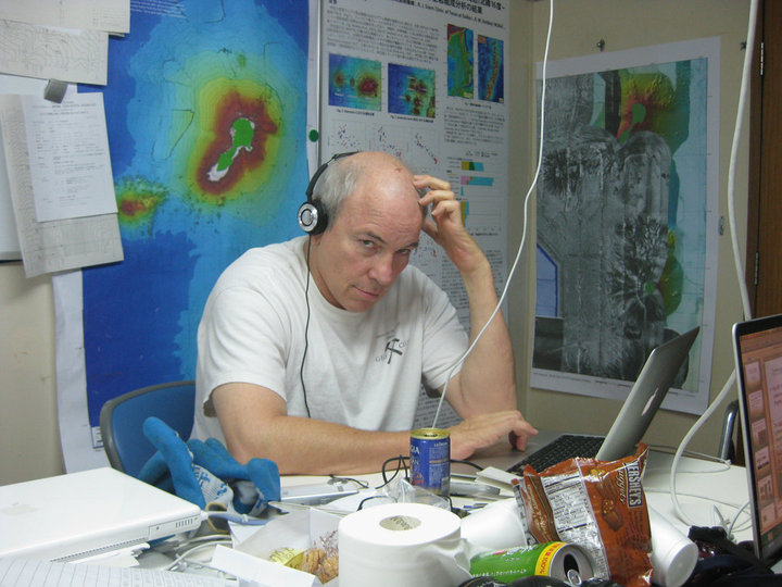 Robert J. Stern at sea in the Marianas, Western Pacific (age 50) 2001